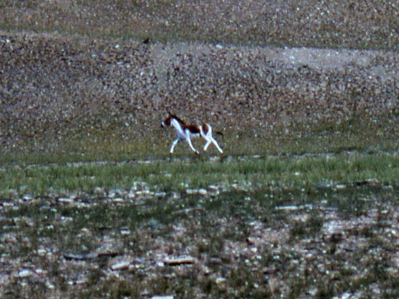 Kiang, wild Ass from Tibet (Equus hemonius kiang).